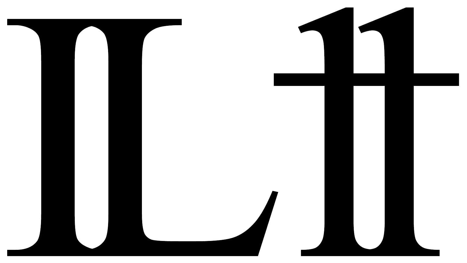 The obsolete "ll" digraph symbol formerly used in Welsh transliteration.[1]